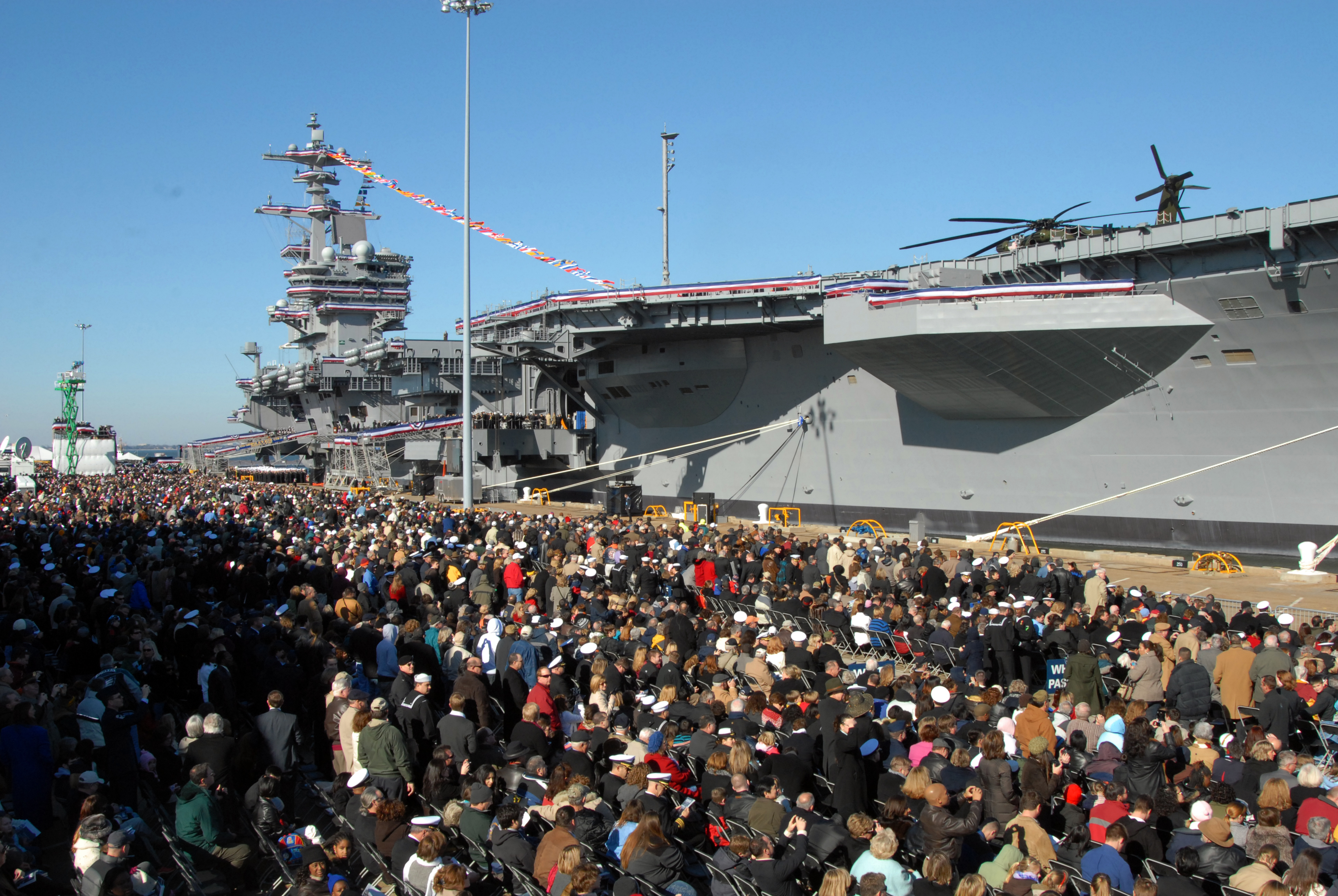 090110-N-4669J-086 NORFOLK (Jan. 10, 2009) The audience gathers for the commissioning ceremony for the aircraft carrier USS George H.W. Bush (CVN 77) at Naval Station Norfolk, Va. George H.W. Bush is named after the 41st president of the United States. (U.S. Navy photo by Mass Communication Specialist 2nd Class Jennifer L. Jaqua/Released)